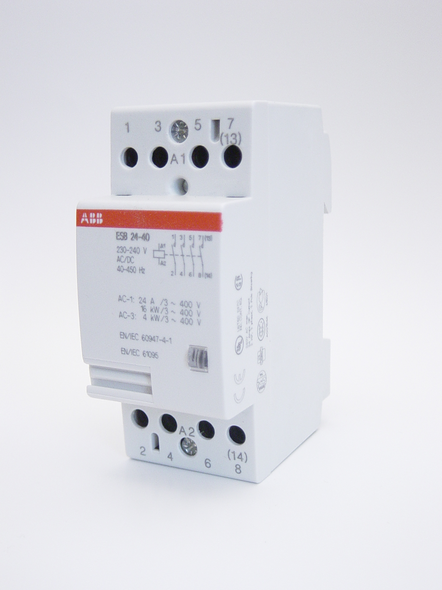 Contactor for Distribution board, ABB